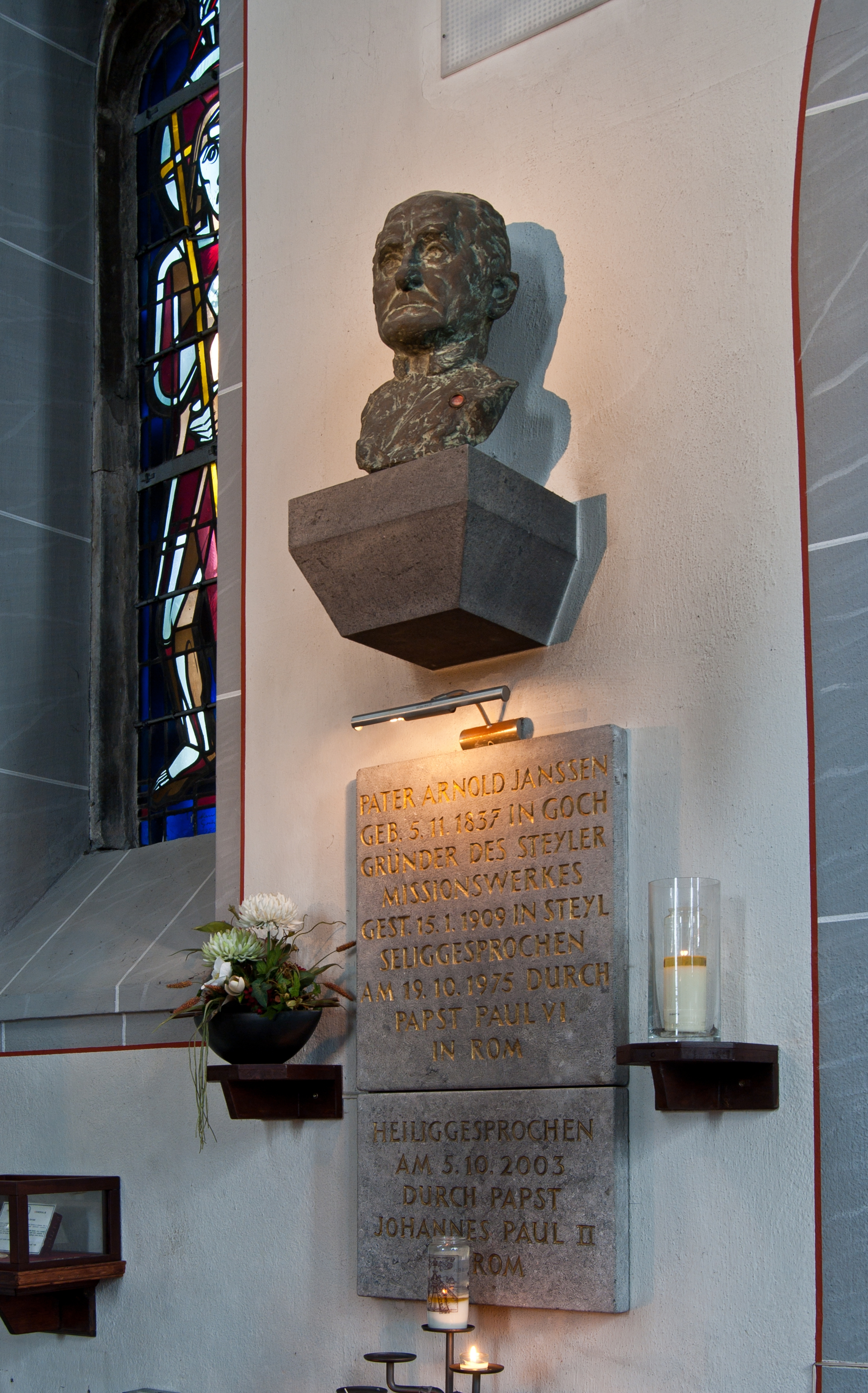 Bust and plaque of Saint Arnold Janssen in the Catholic Saint Mary Magdalene Church in Goch, Germany This image shows a heritage building in Germany, located in the North Rhine-Westphalian city Goch (no. 5). This photograph was taken with a Nikon D3000